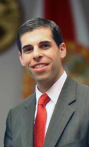 Headshot